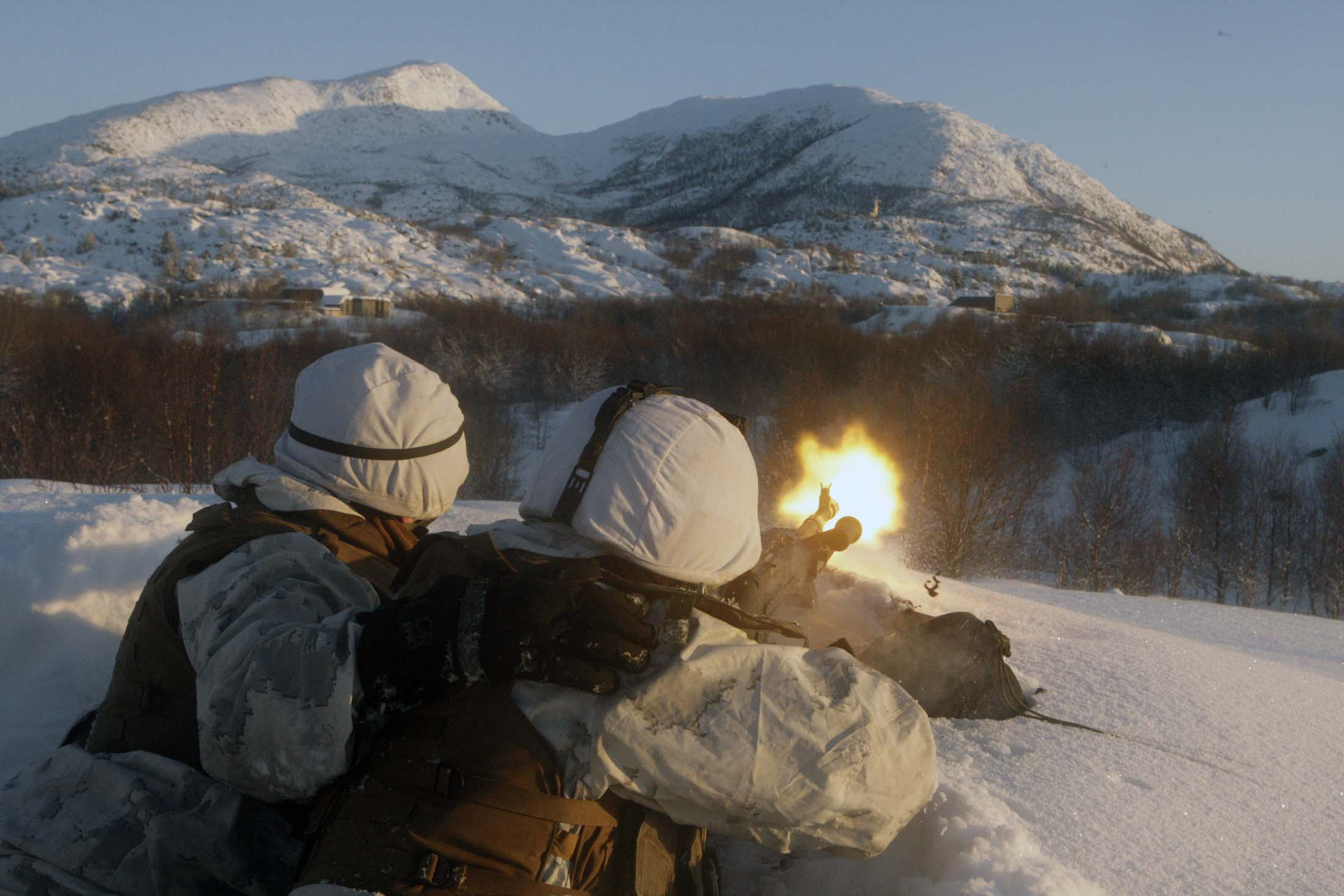 U.S. Marines with Fox Company, 2nd Battalion, 25th Marine Regiment, 4th Marine Division provide fire support during exercise Cold Response (CR) 2010 Feb. 26, 2010, in Norway. CR 2010 is a Norwegian-sponsored exercise with the Norwegian armed forces focused on cold weather maritime/amphibious operations, interoperability of expeditionary forces, special and ground operations. Participants include forces from Great Britain, the Netherlands, Sweden, Finland, Germany, Austria and other NATO partners. (U.S. Marine Corps photo by Master Sgt. Michael Q. Retana/Released)